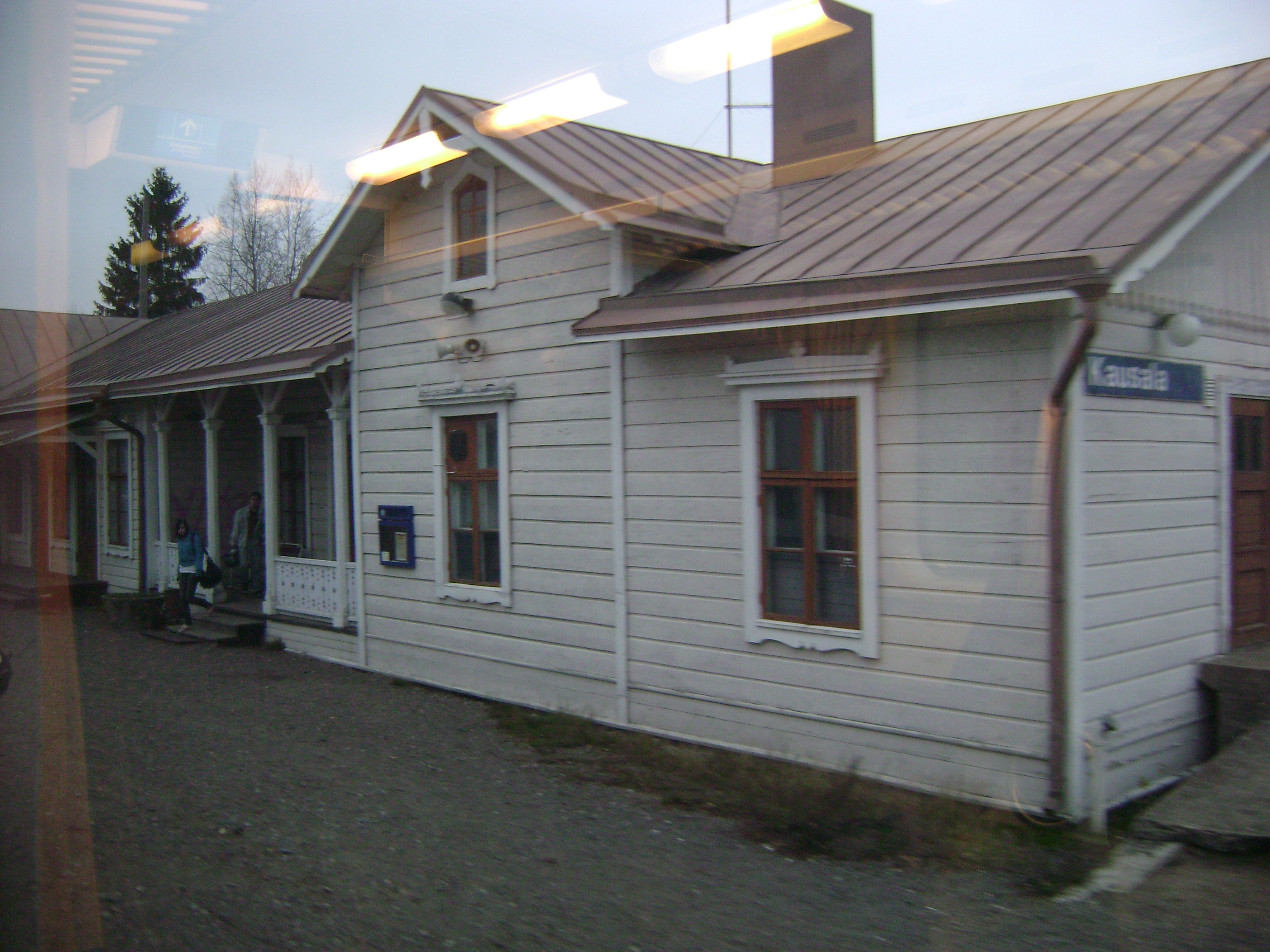 Kausala railway station